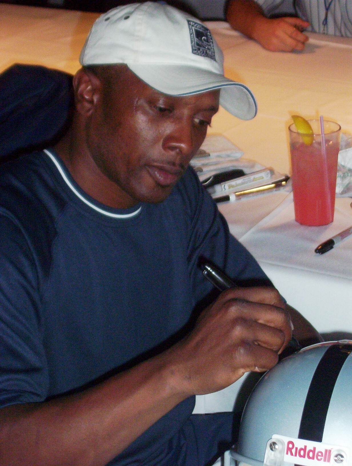 Tim Brown at autograph show in Ontario, CA in 2004.